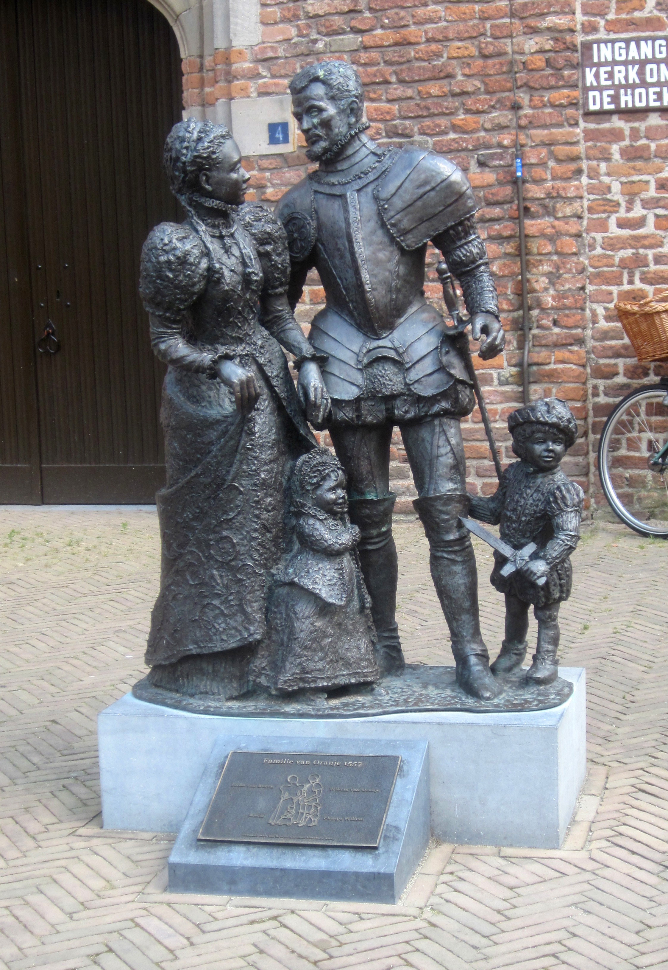 Sculpture of Willem van Oranje, Anna van Buren, Filips and Maria made by Lia Krol and Caroline van 't Hoff at the Markt in Buren, made in 2003.